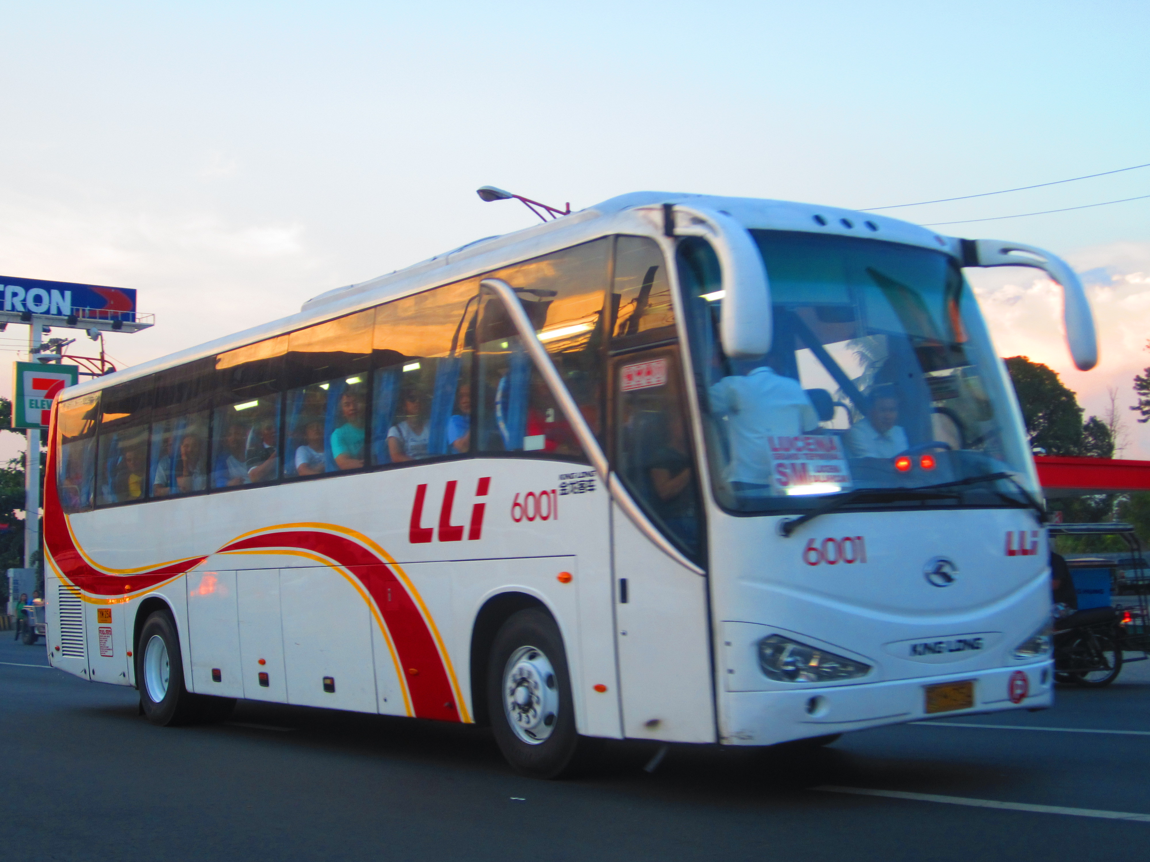 Lucena Lines 6002 - KingLong XMQ6118 Bus Unit